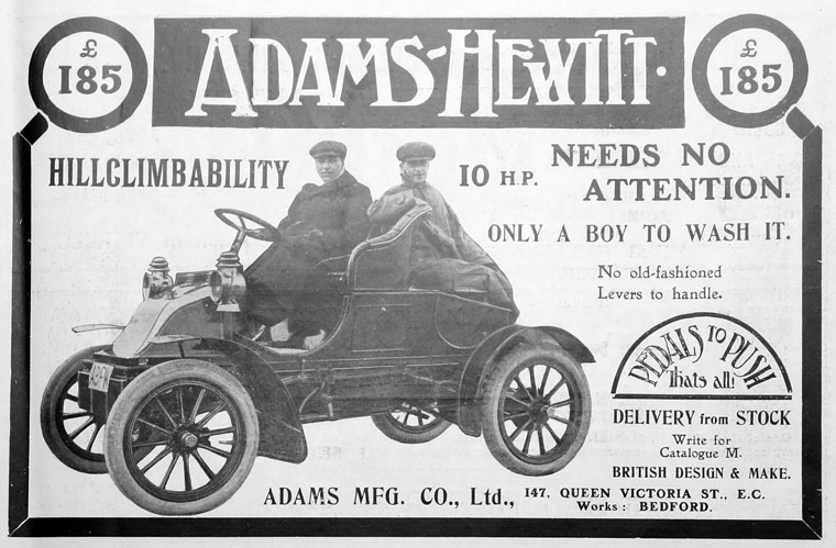 Ad for British Adams-Hewitt 10 HP single cylinder automobile at £ 185 (1906), claiming "hillclimbability", easy to clean, and "only pedals to push".